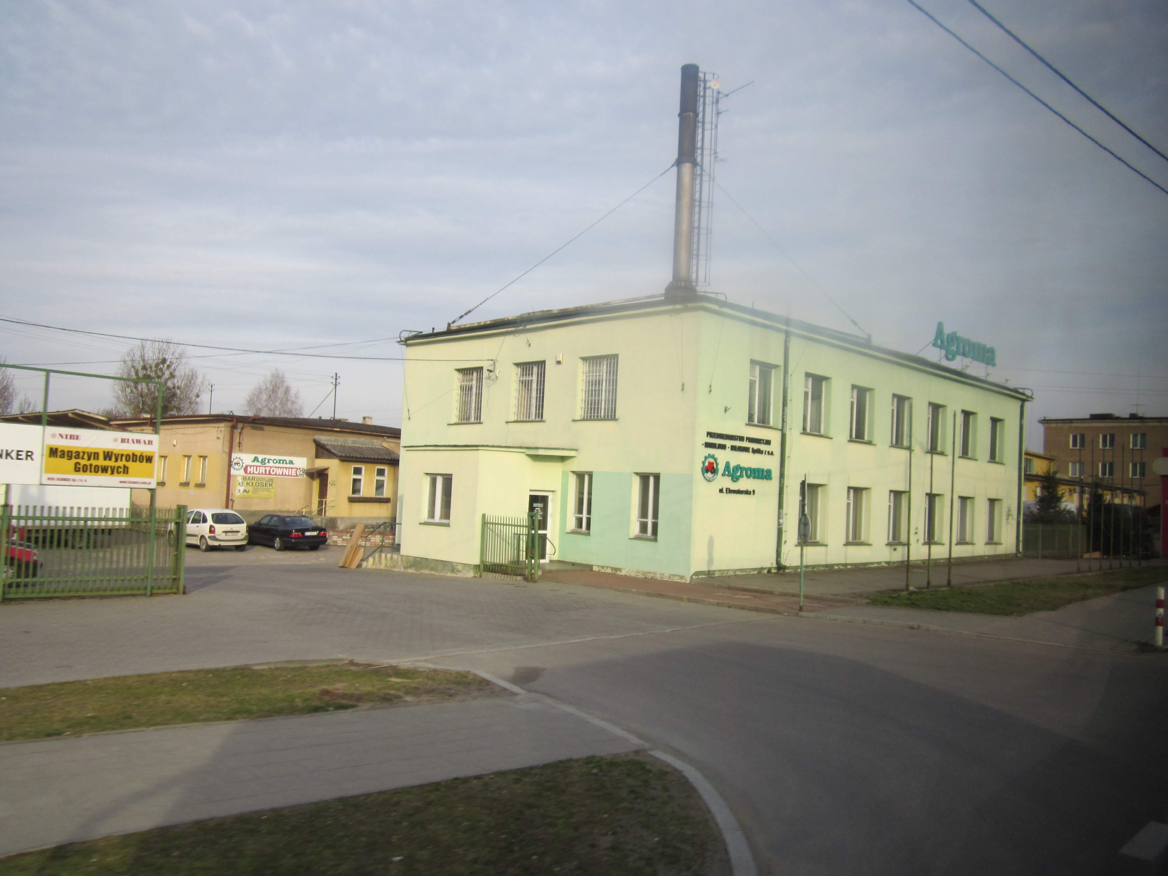 Agroma Białystok - a company trading agricultural equipment, gardening seated street Elewatorska 9.